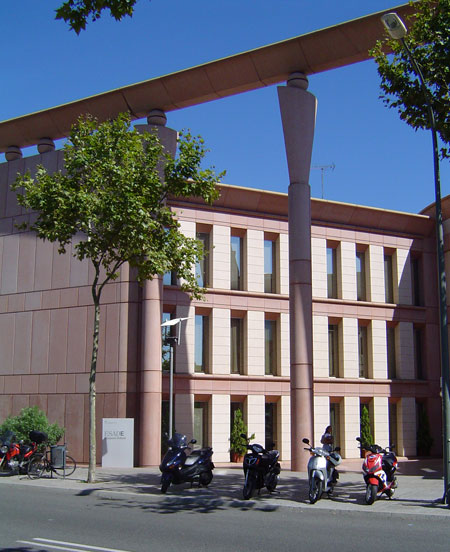 ESADE Business School building in Barcelona Taken by Onar Vikingstad 2003